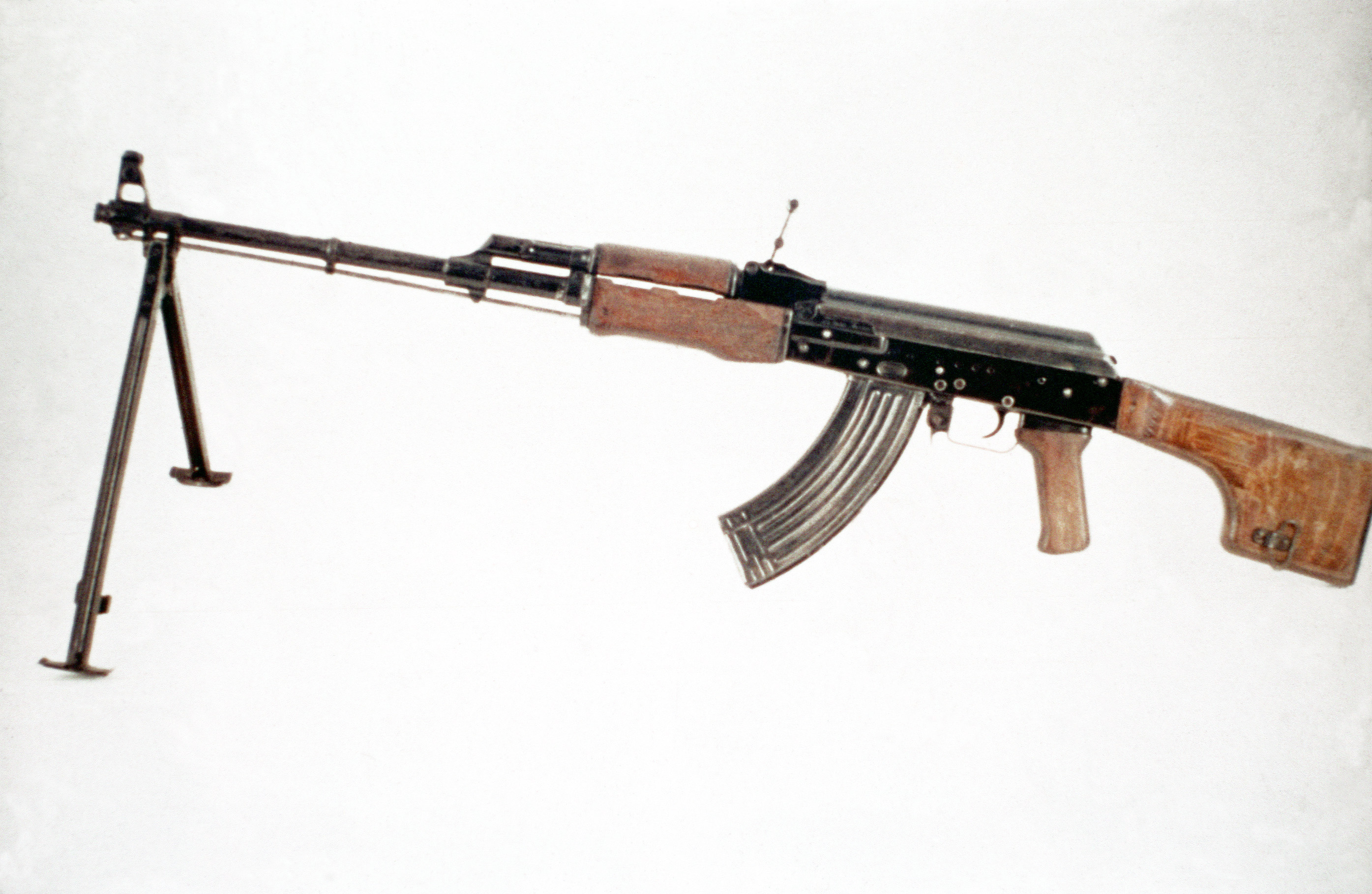 A right side of a Soviet 7.62mm RPK light machine gun with a 40-round box magazine. (Released to Public)